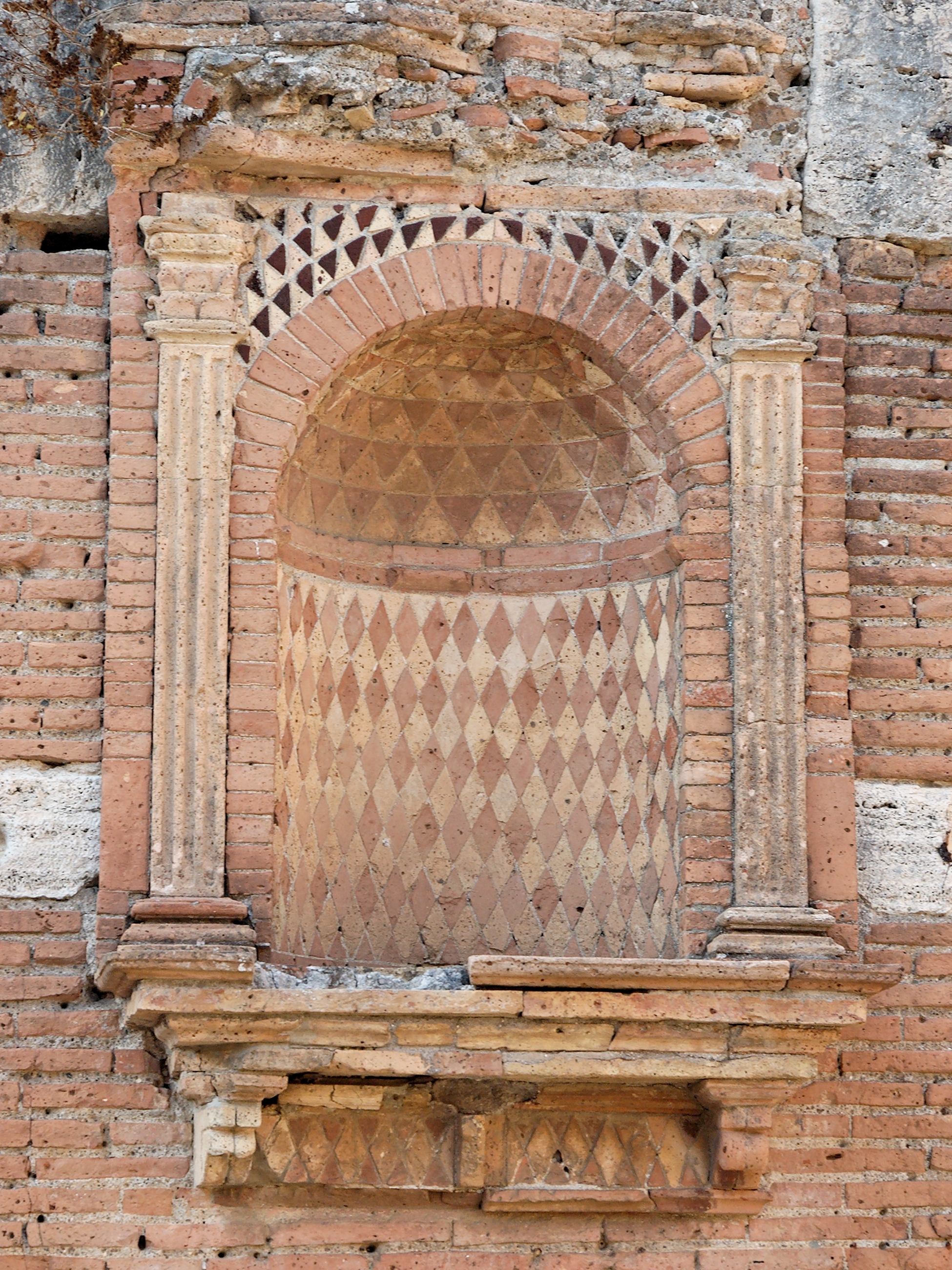 Shrine in red and yellow bricks, probably housing the Lares. Back wall of the Caseggiato del larario, Ostia Antica, Latium, Italy.